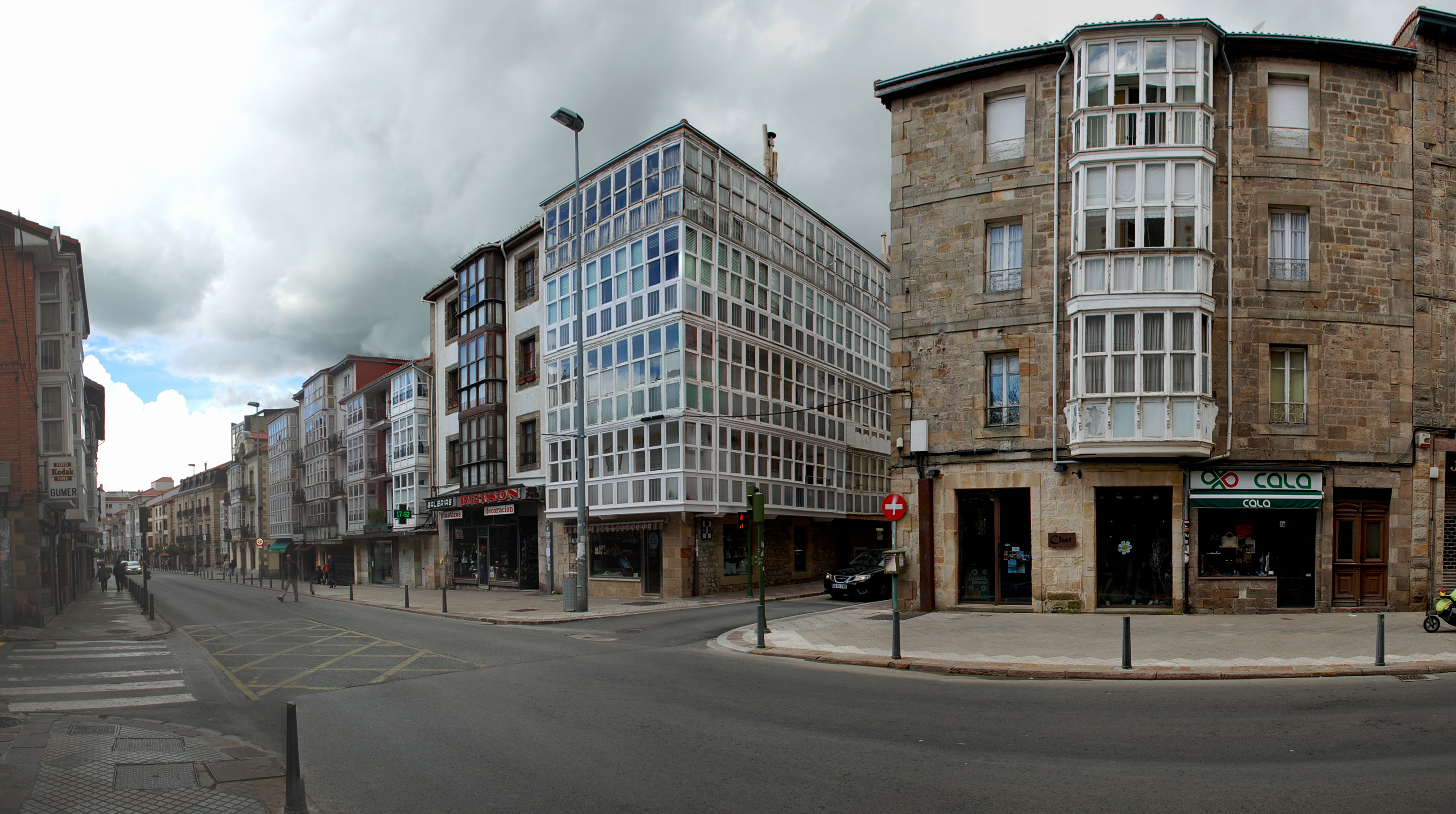 Reinosa (Cantabria).